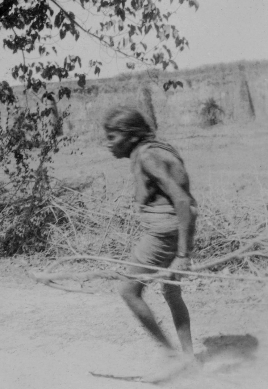 A tribal woman from the Andamans, picture taken by Poška in 1935